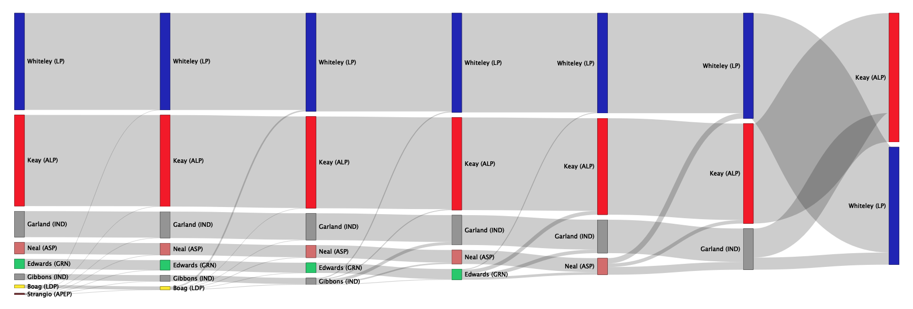 Sankey diagram of preference flows for the Braddon by-election 2018